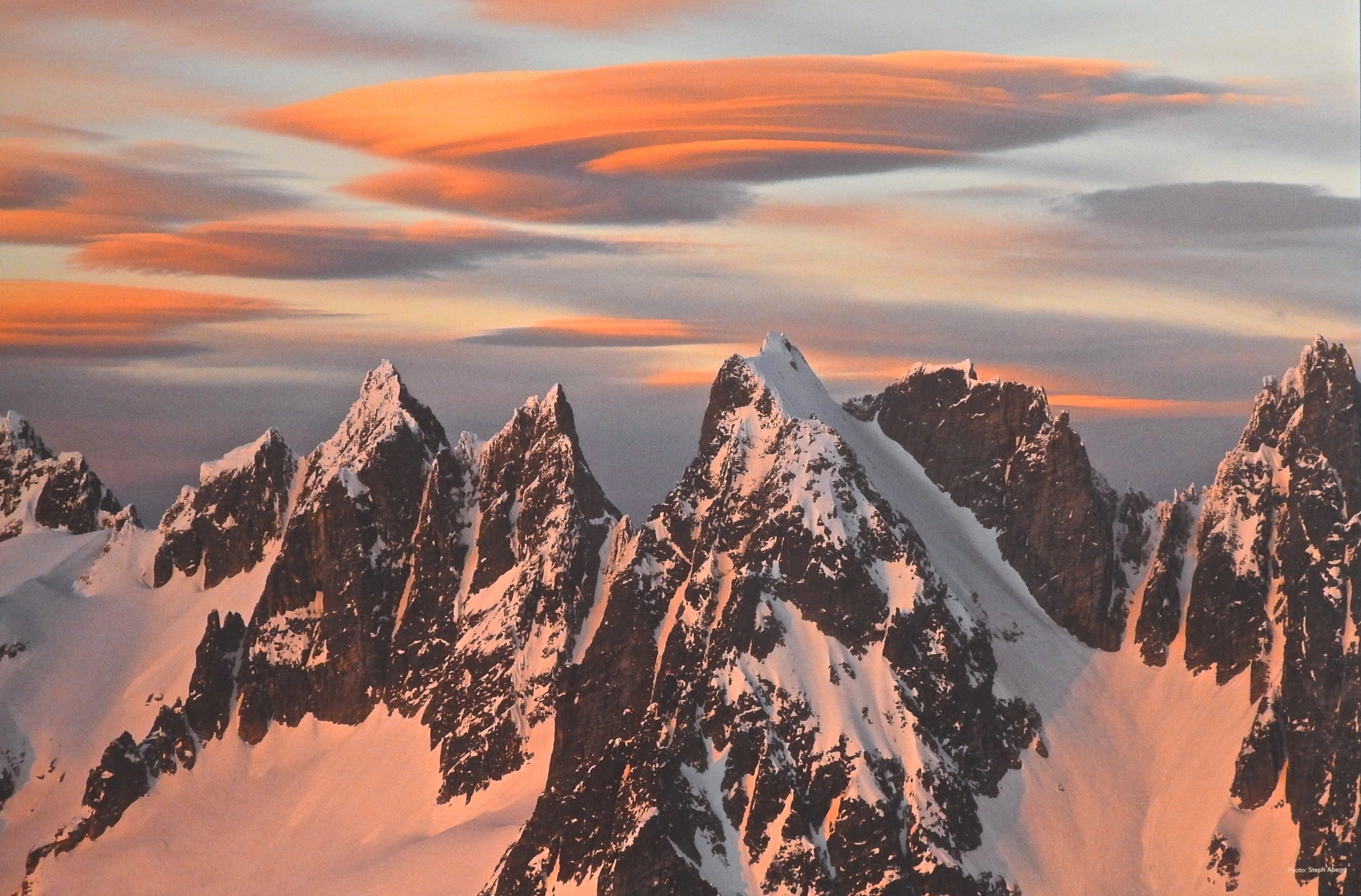 Himmelhorn and Twin Needles of the Picket Range, North Cascades National Park.